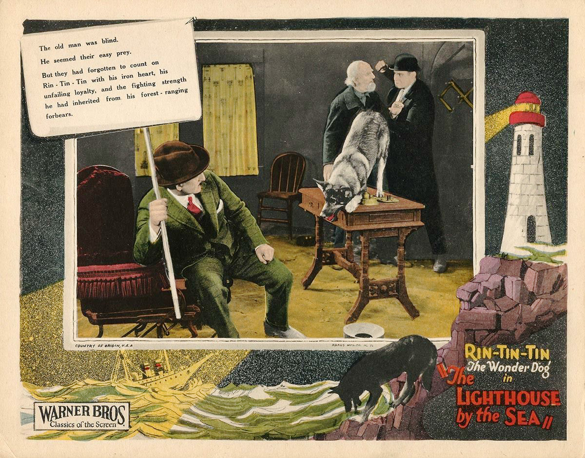 Lobby card for the American drama film The Lighthouse By the Sea (1924).